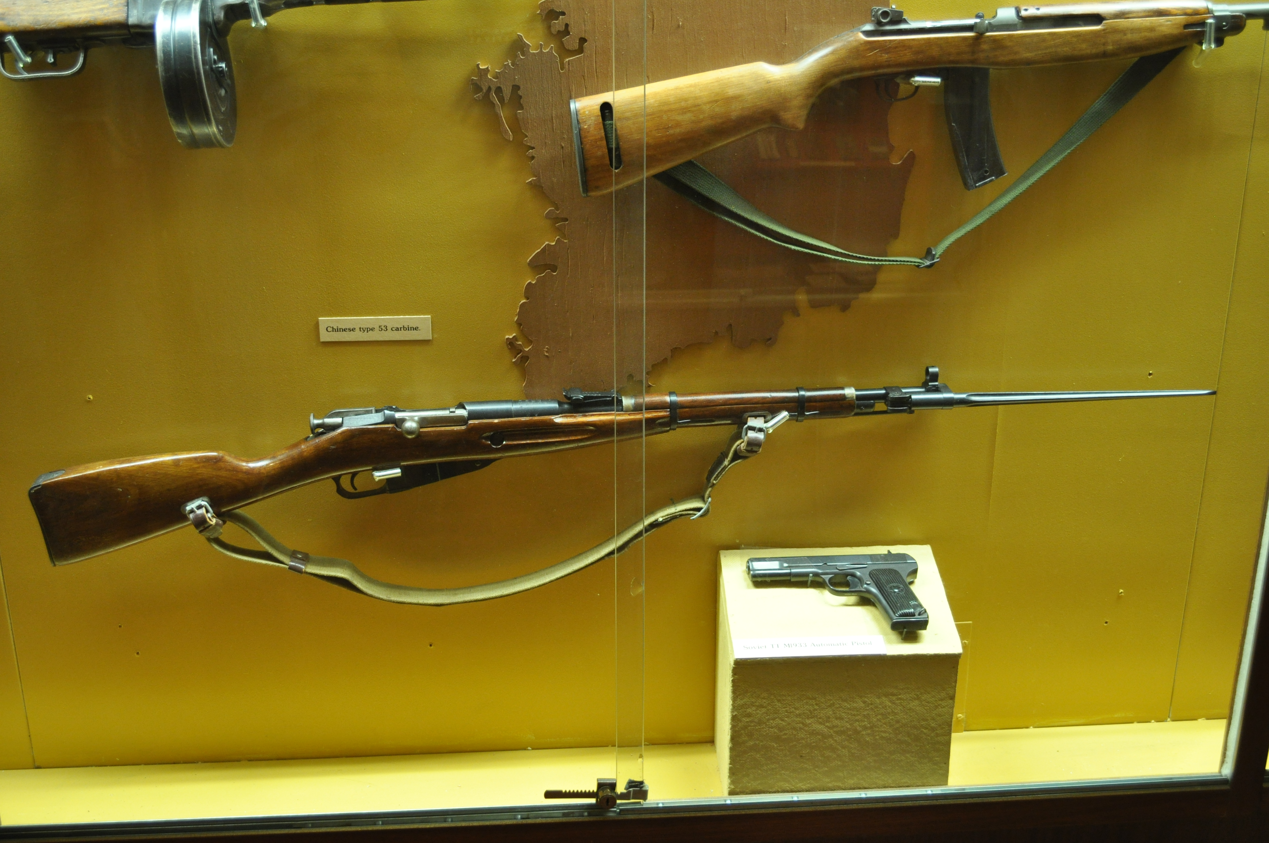 Chinese Type 53 carbine, Fort Lewis Military Museum, Fort Lewis, Washington, USA. Part of a display of the weapons of the Korean War.